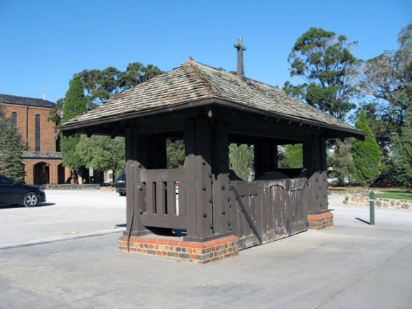 The Lychgate of St Andrew's Church, Brighton